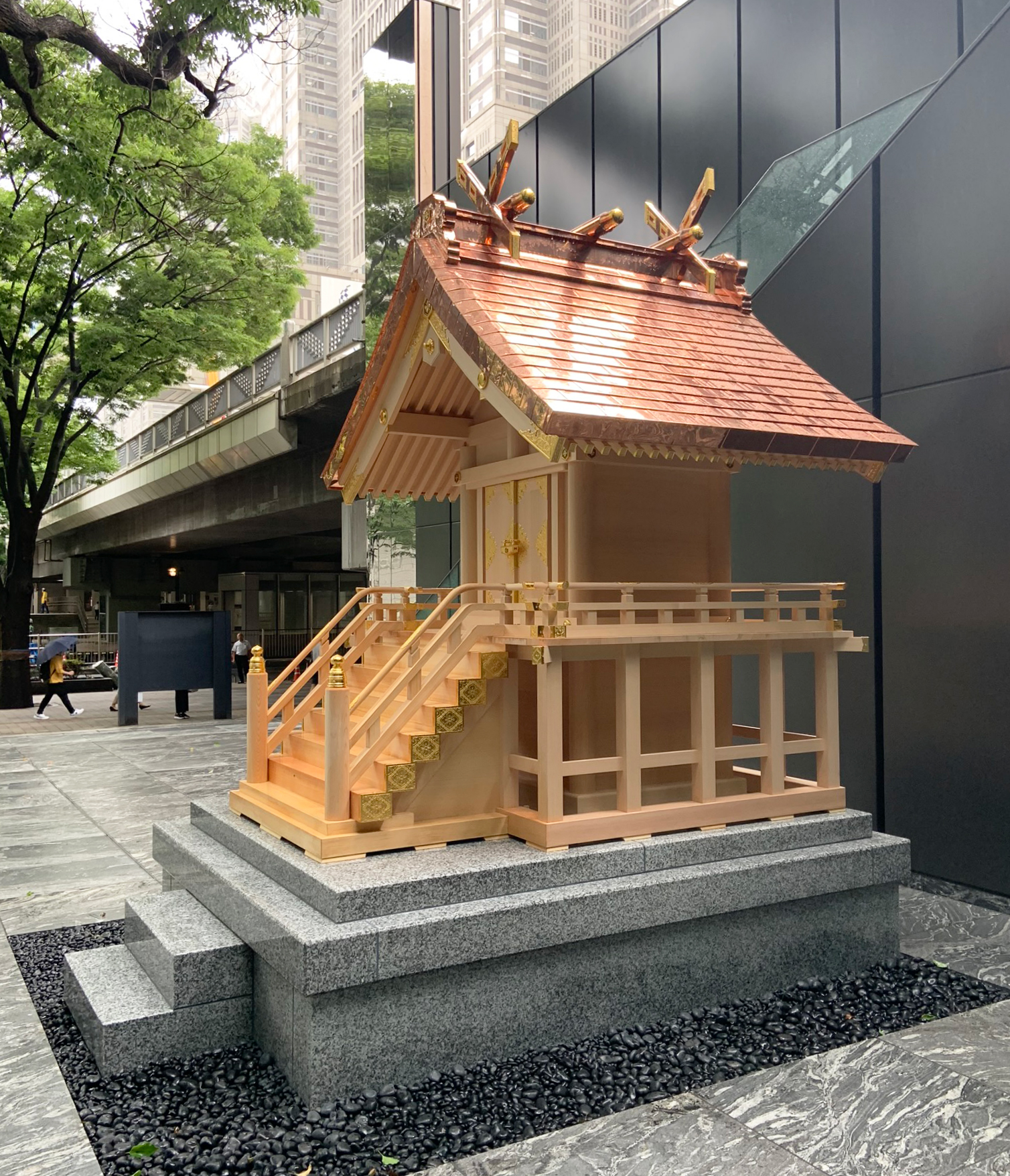 An OKUGAI-SHADEN, or outdoor Shinto altar i.e. mini shrine, with a new copper roof, at Triangle Open Space of Shinjuku Sumitomo Building, Tokyo. This mini shrine is a branch shrine of Izumo-taisha, one of the biggest shrine in Japan.